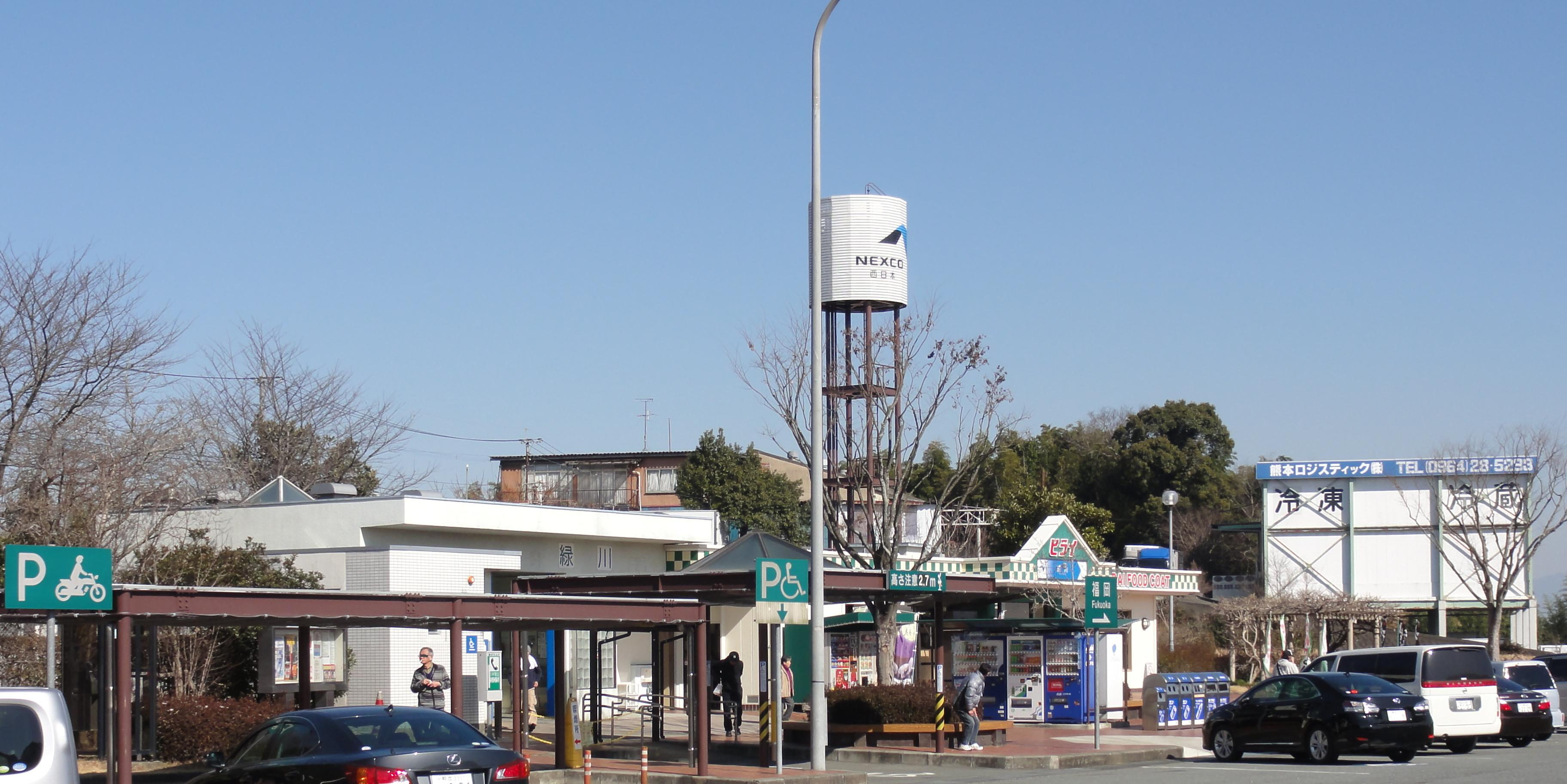 Midorikawa Parkig Area ,Kumamoto prefecture, Japan